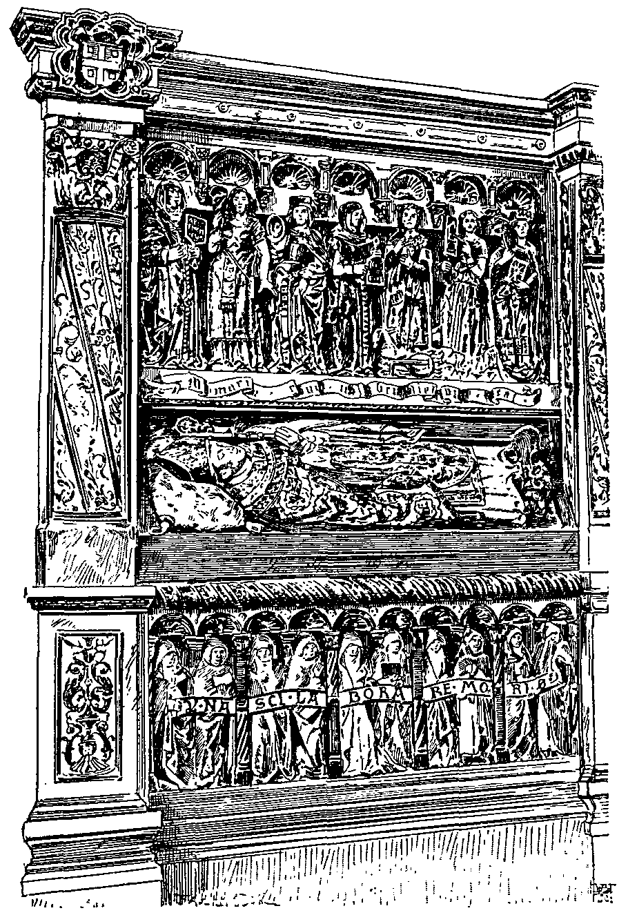 Detail (Figure 95) from page 285 of Palustre's L’Architecture de la Renaissance, 1892